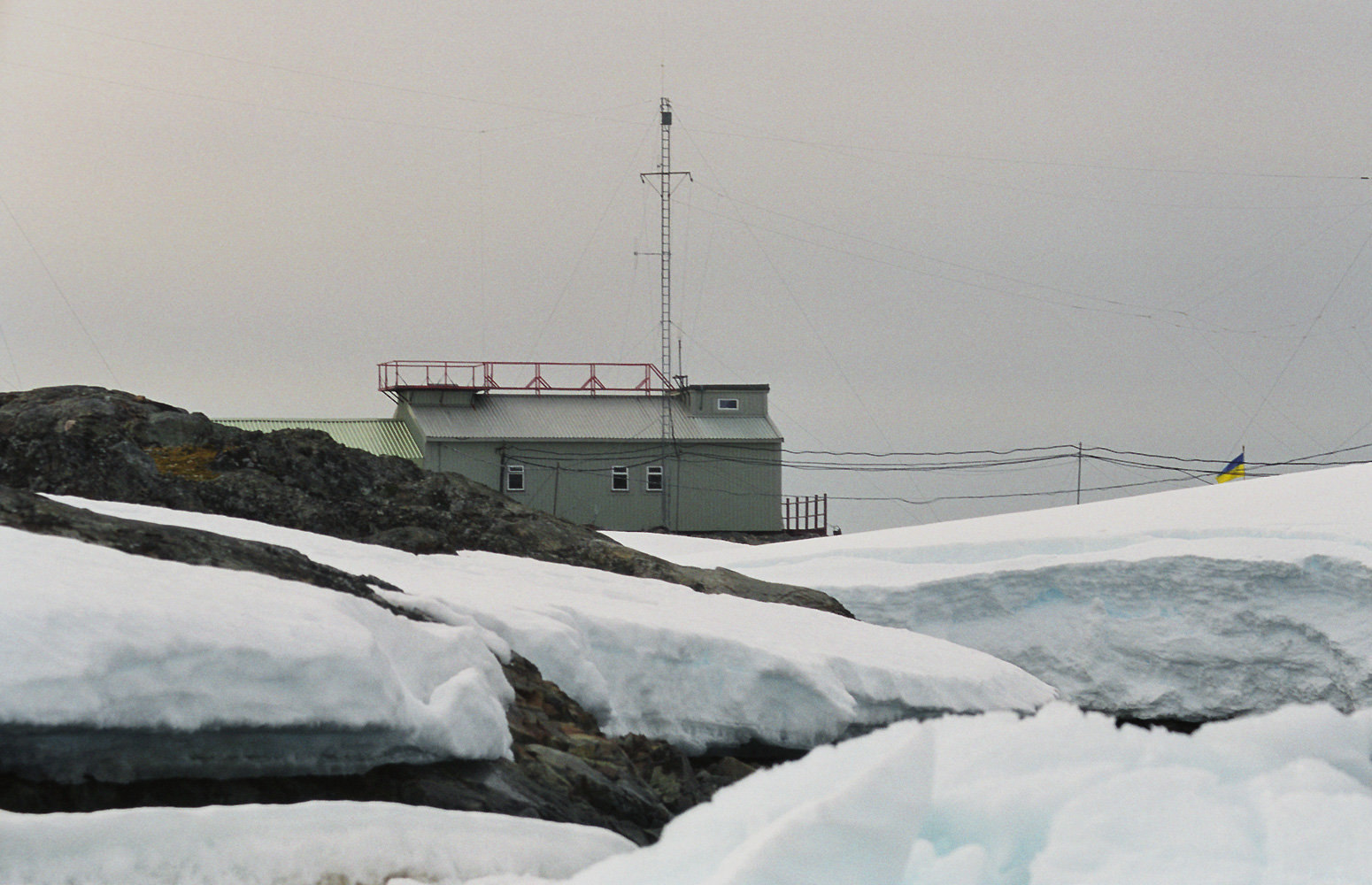 Ukrainian Antarctic Station - Vernadsky Research Base